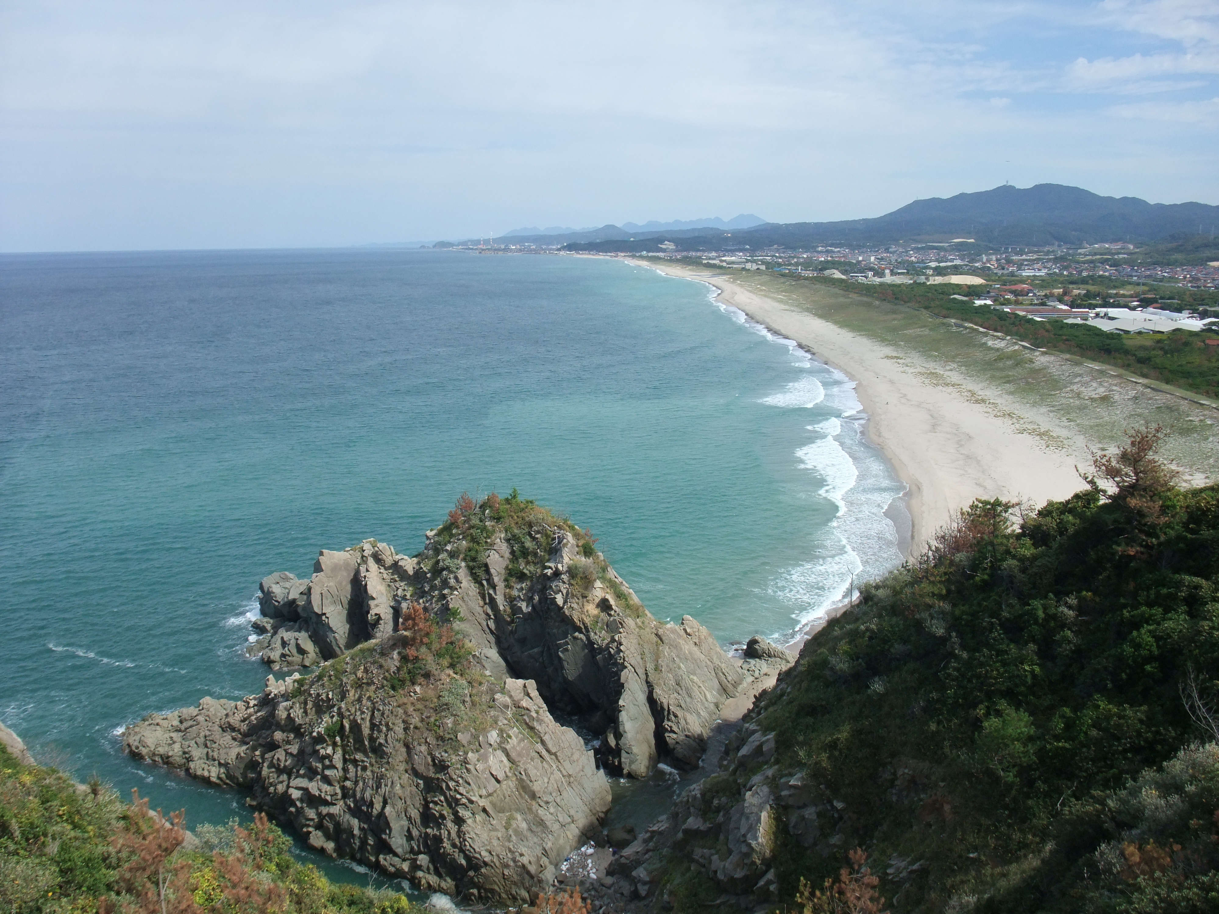 It desires in the city rather than the "Osakihana lighthouse".